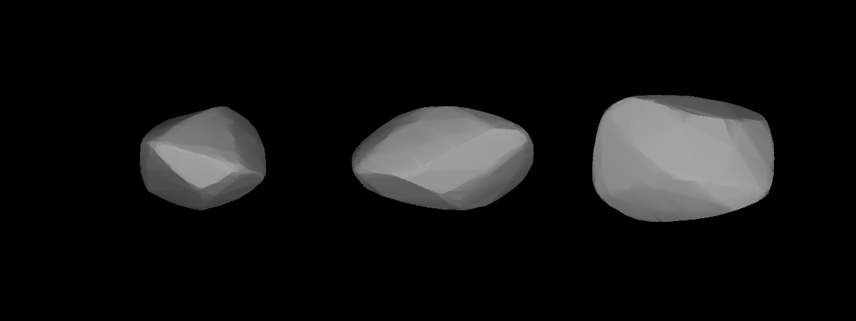 A three-dimensional model of 2510 Shandong that was computed using light curve inversion techniques.